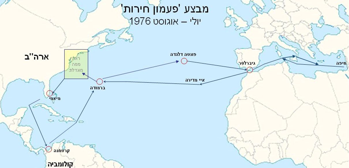 The whole path of Israeli Saar boats sailing for US bicentannial 1976